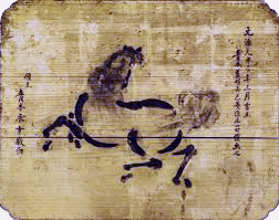 Ema with horse from Kakkumi Onsen, Hakodate City Museum, Hakodate, Hokkaido, Japan